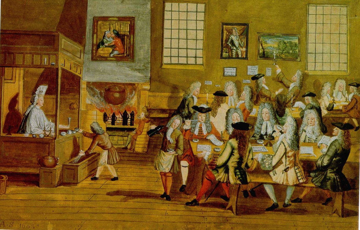 Interior of a London Coffee-house, 17th century